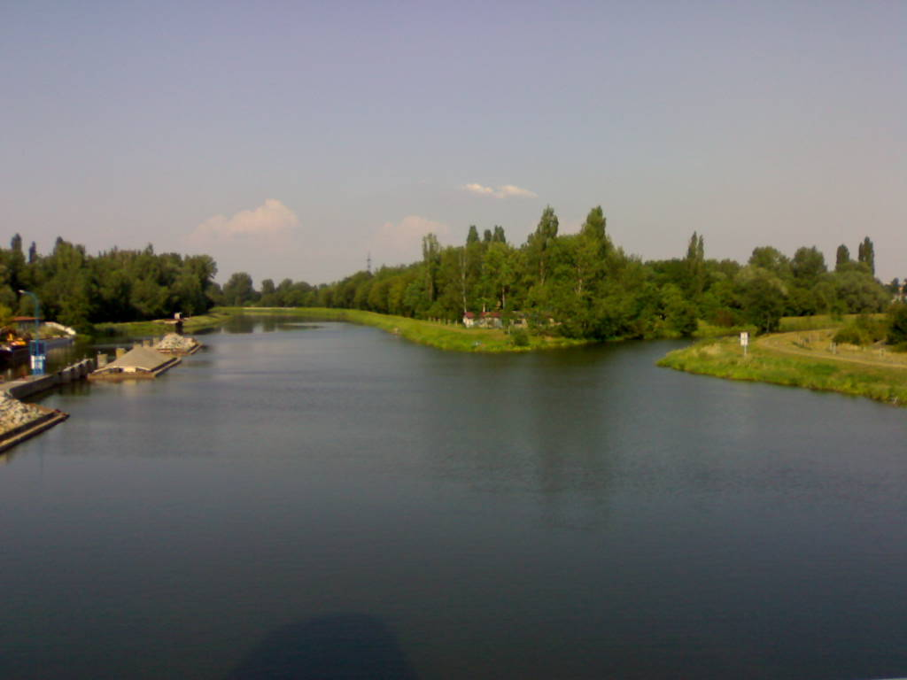 mouth of Chrudimka into Elbe in Pardubice